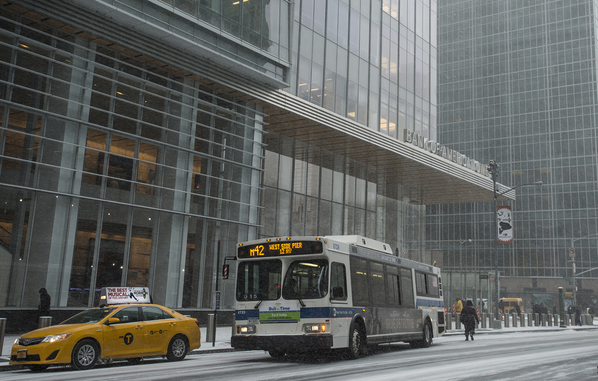 Buses navigated the snow in Midtown Manhattan in the early parts of a snowstorm on January 21, 2014. Photo: Metropolitan Transportation Authority / Patrick Cashin.